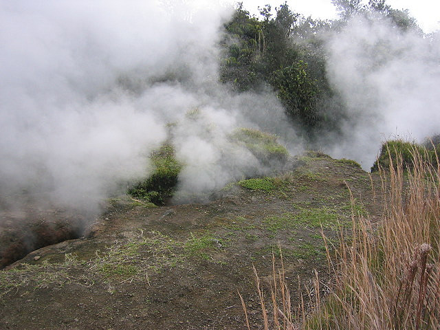 Steaming Bluff crack, Kilauea, Hawaii, Unites States